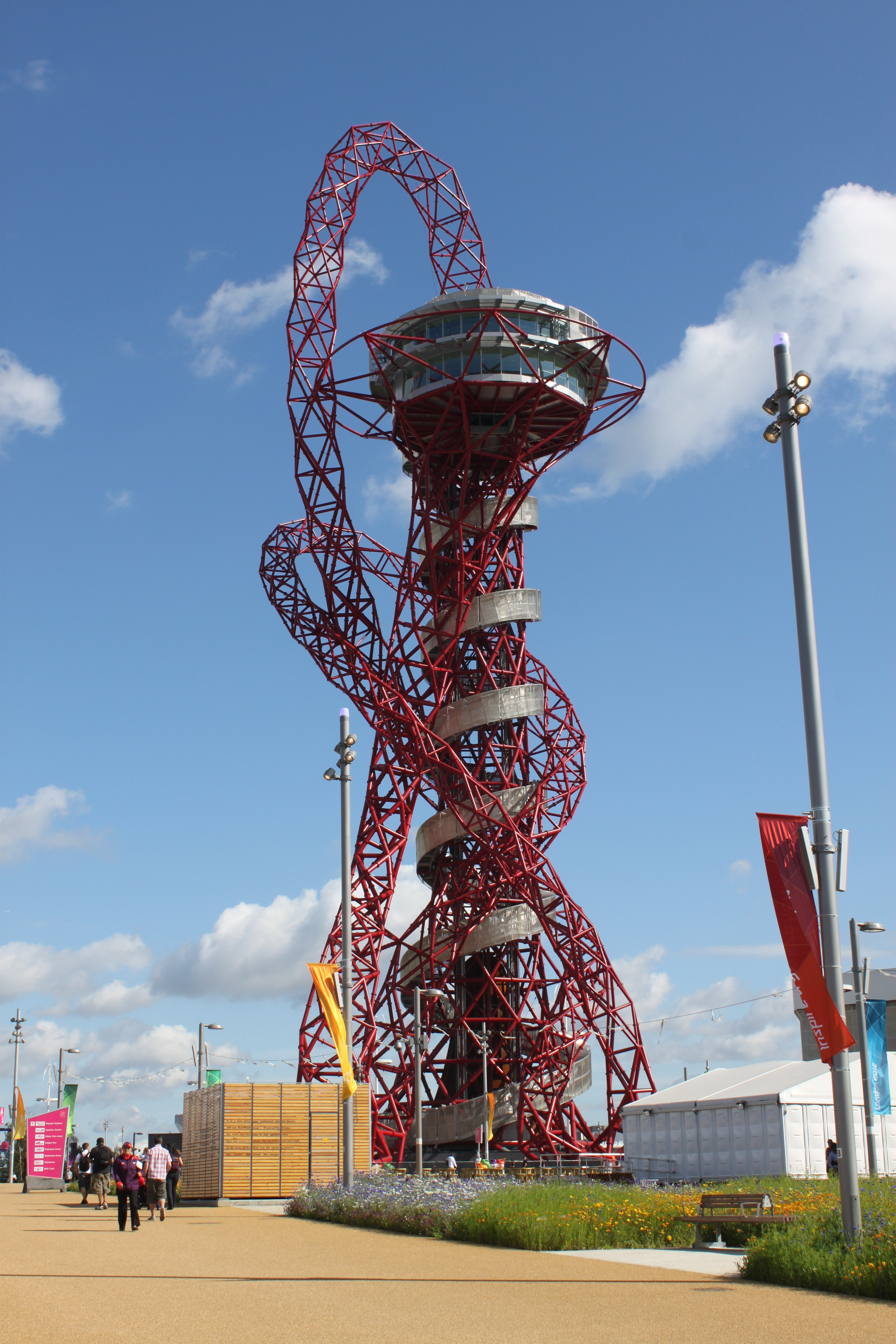 ArcelorMittal Orbit, Olympic Park, Stratford, London.